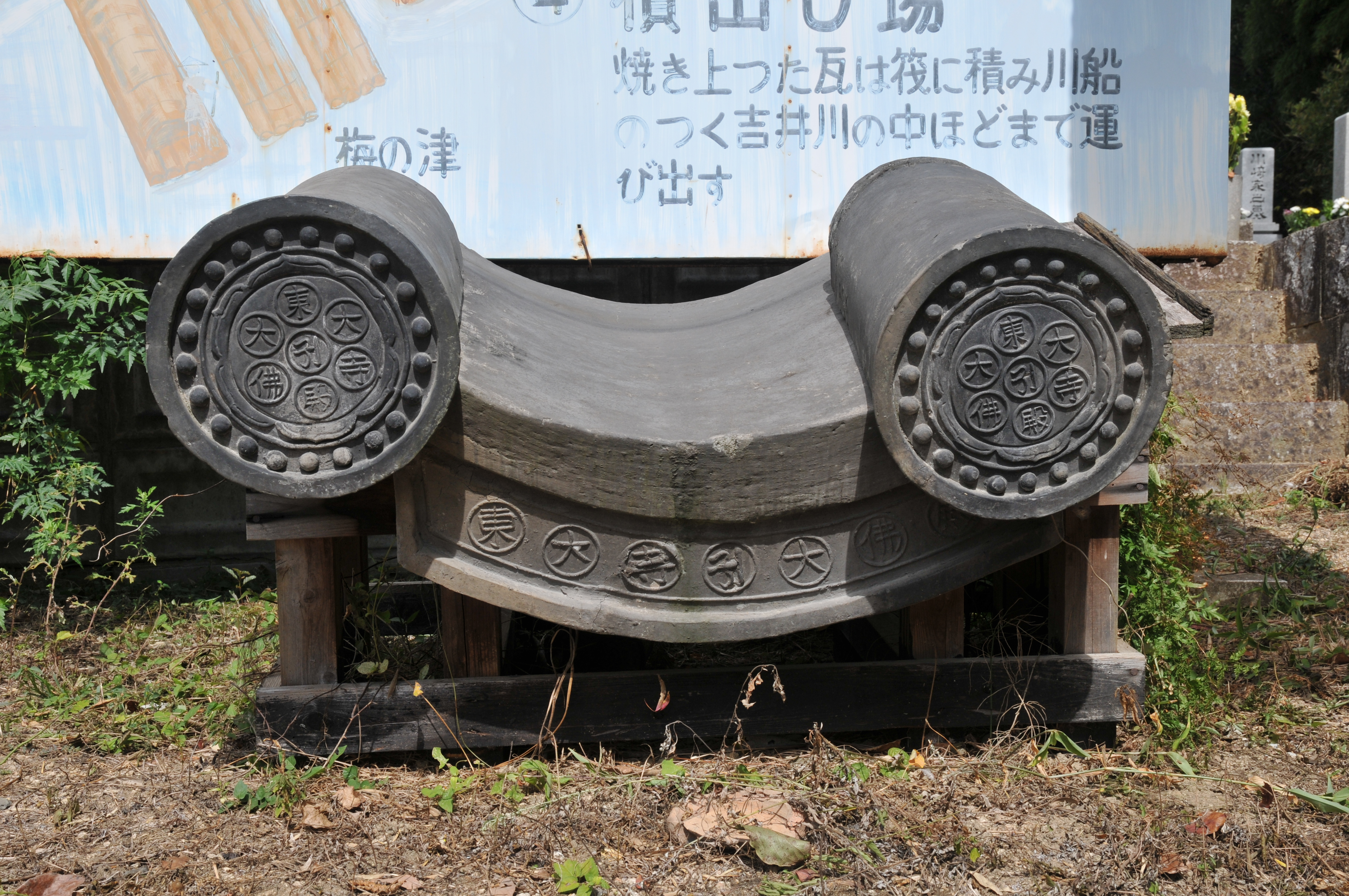 Replica roof tiles, Mantomi Todaiji Gayo Site